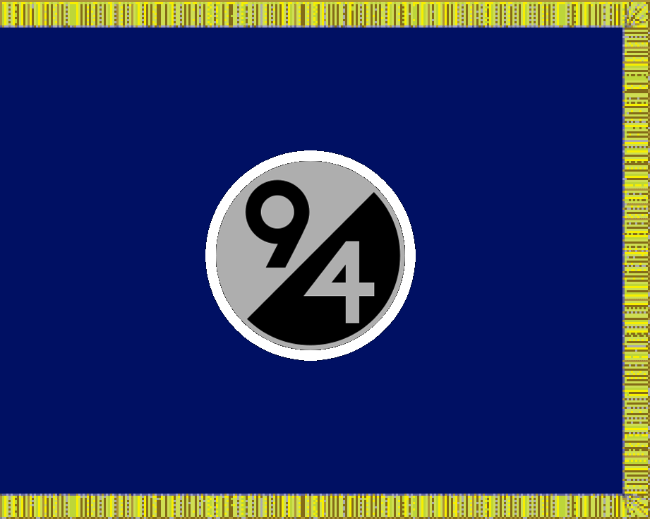 Distinguishing colour of the 94th Regional Support Command / 94th Regional Readiness Command (United States) in 1991 forward